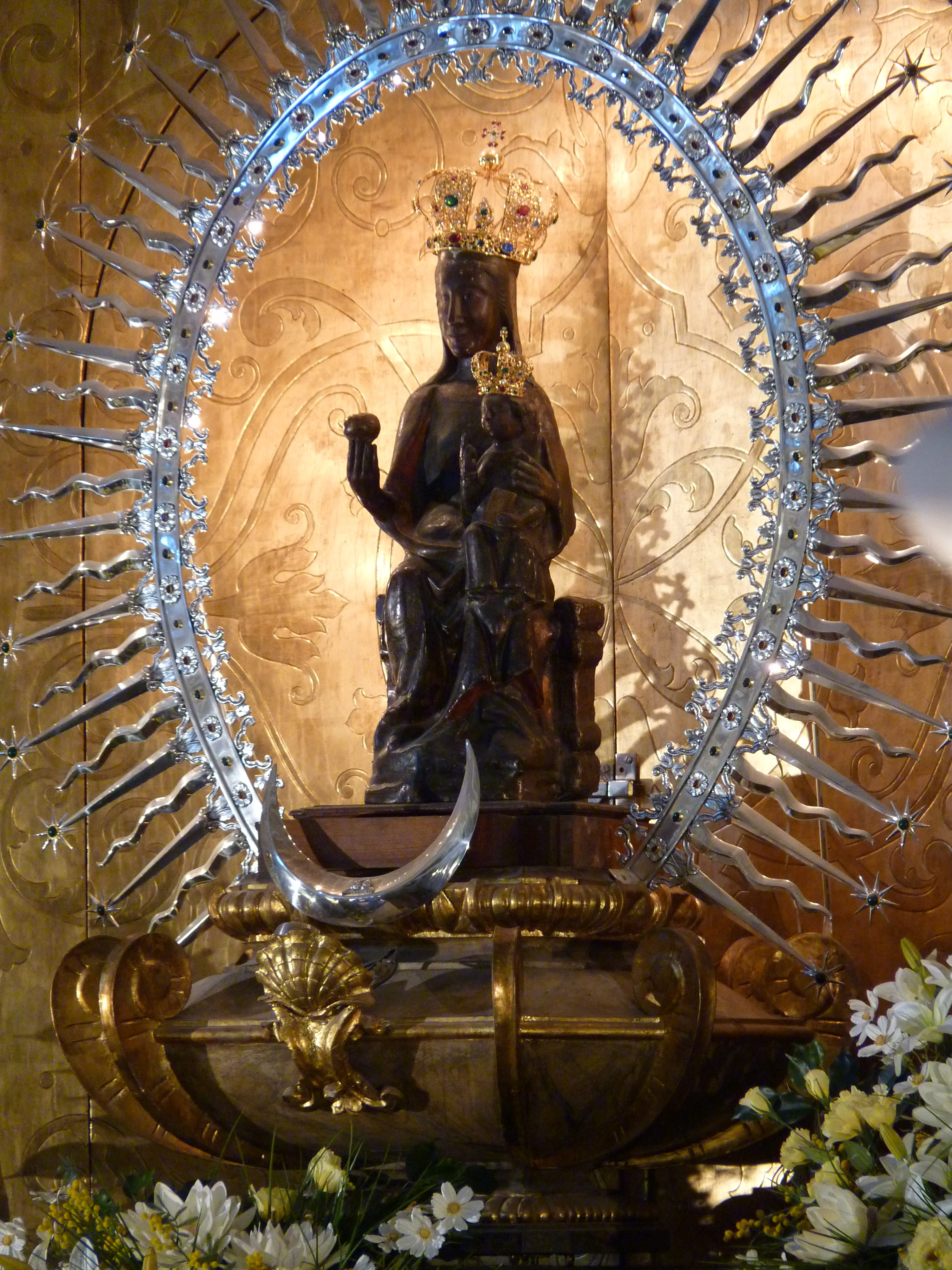 Our Lady of Atocha. Blackfriars (Madrid).